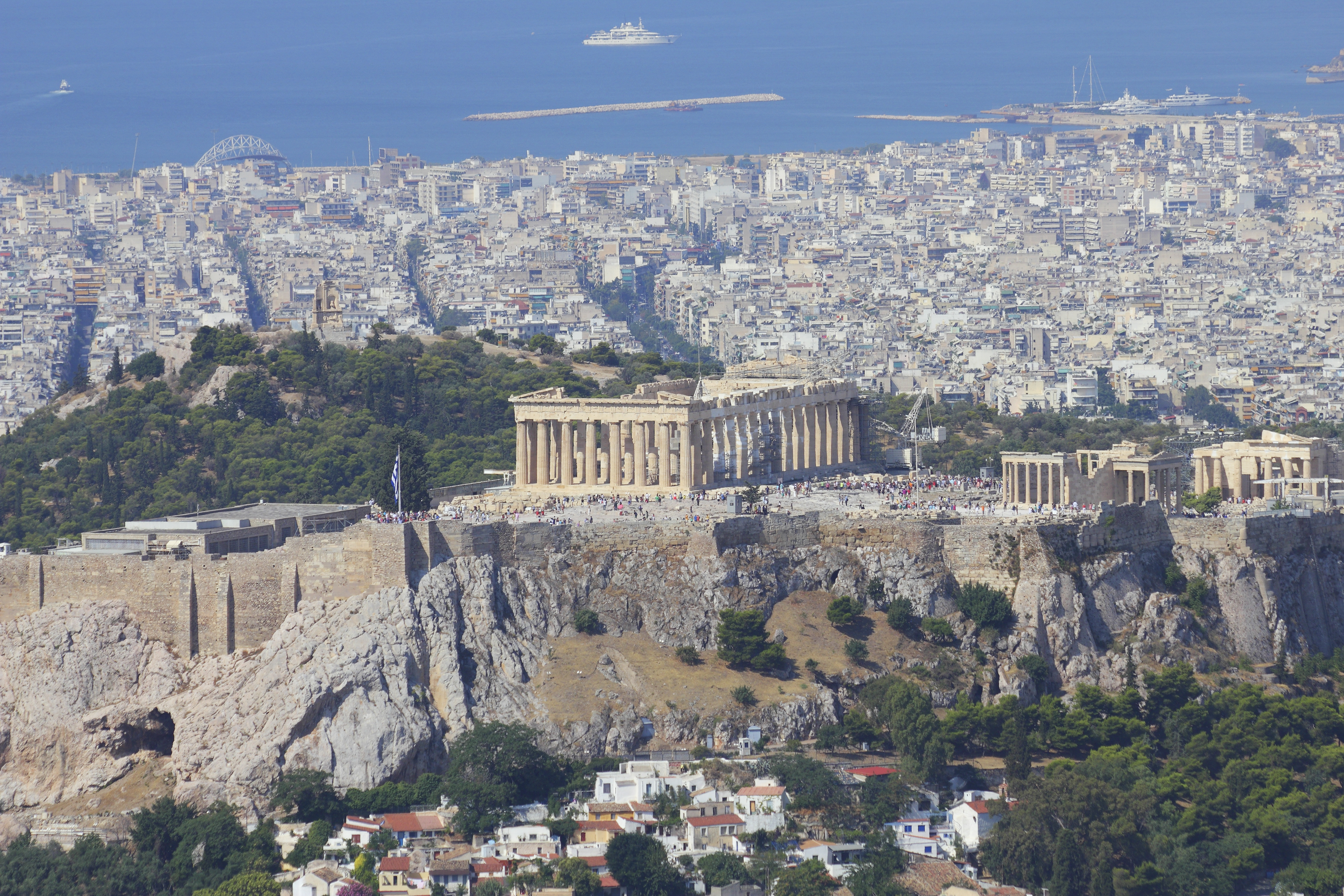 View from Lycabettus in Athens (Attica, Greece)